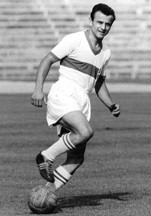 Erwin Waldner during a VfB match in 1959.